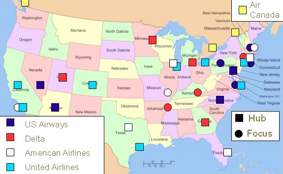 Map of the Main Hubs and focus cities of North America including recent or announced mergers